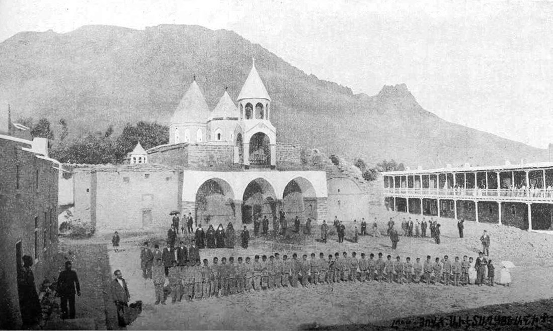 View of Varagavank and its staff before the Armenian Genocide.